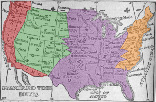 Colorized version of File:Time zone map of the United States 1913.tif, showing old time zones of the USA from the year 1913. The colors used are chosen from the conventions of WikiProject Maps on the English Wikipedia.